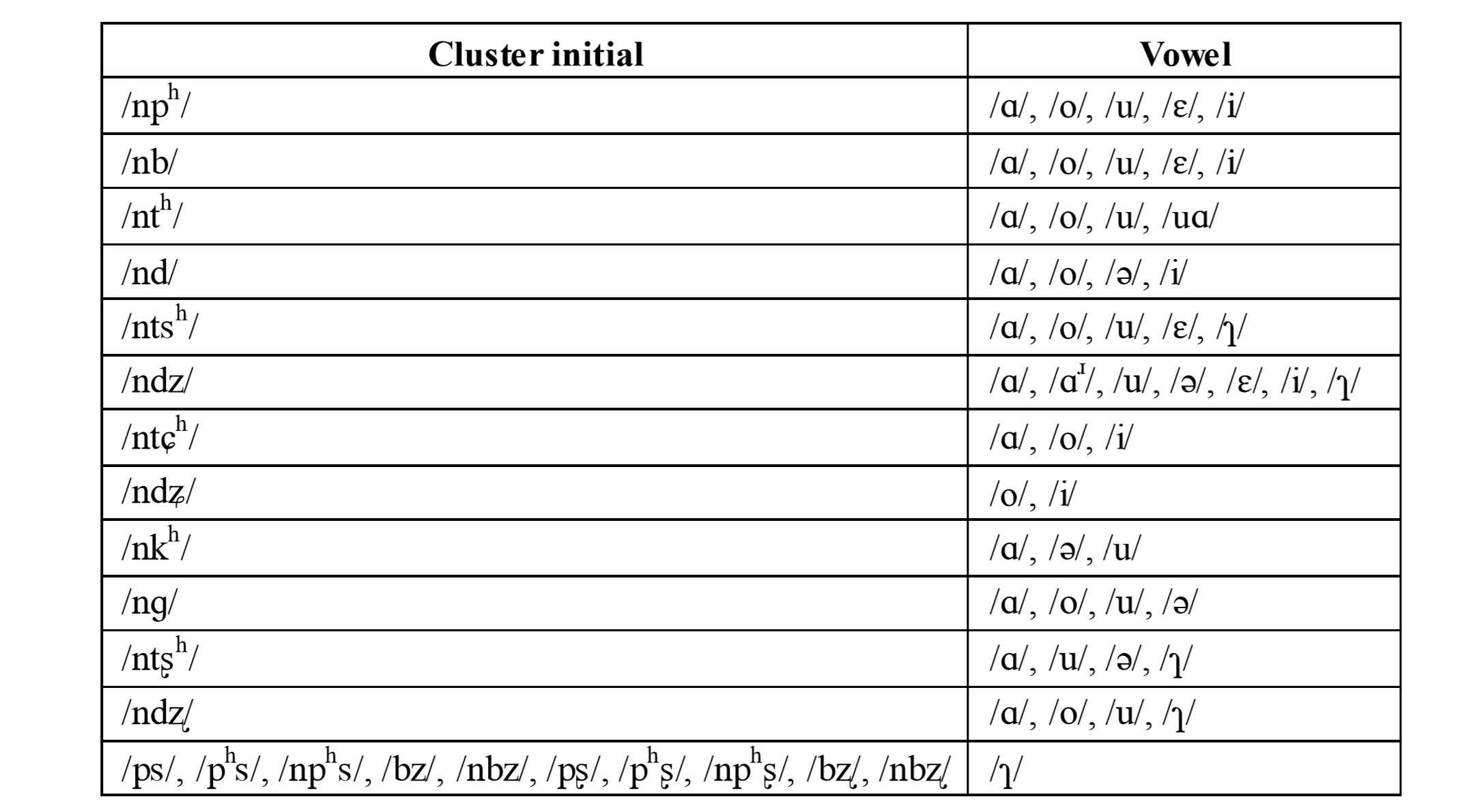 this table provides the most common possible combinations of consonant cluster initials and vowels